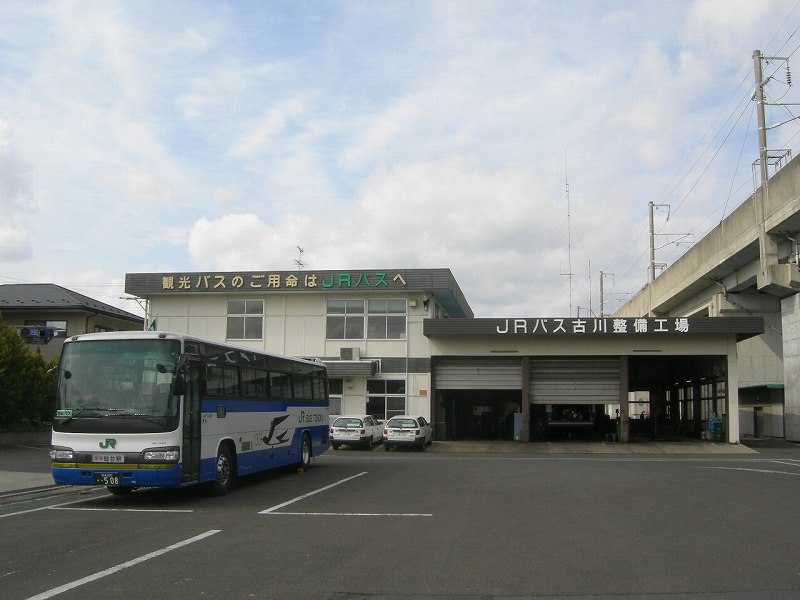 JR bus Tohoku Furukawa branch(Osaki city,Miyagi)